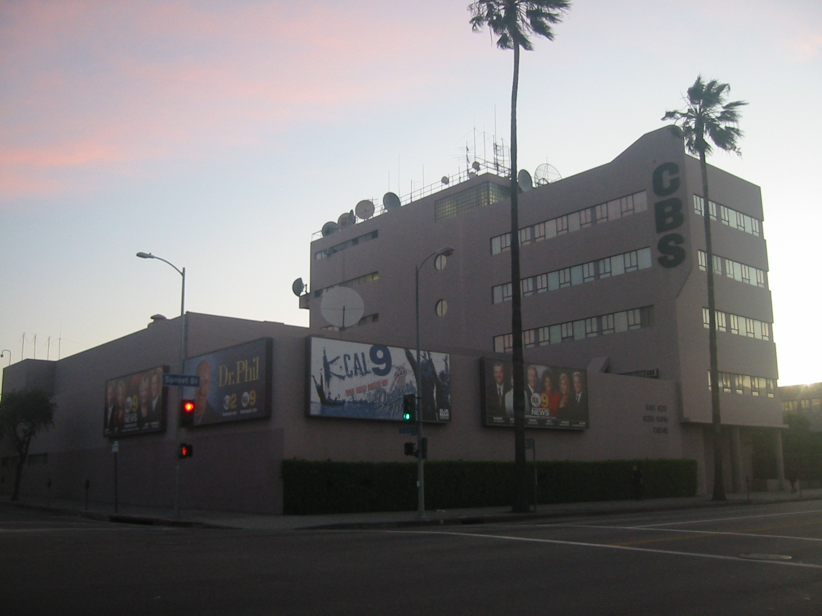 CBS Columbia Square building in Hollywood, California